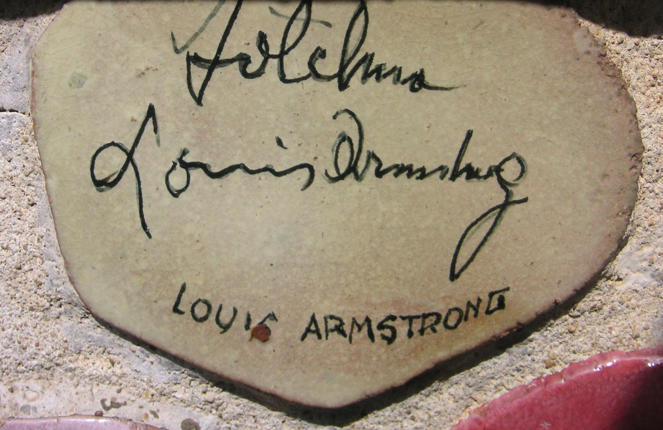 Signature of the musician Louis Armstrong on a Piastrella del Muretto di Alassio' (Tile of the wall of Alassio).